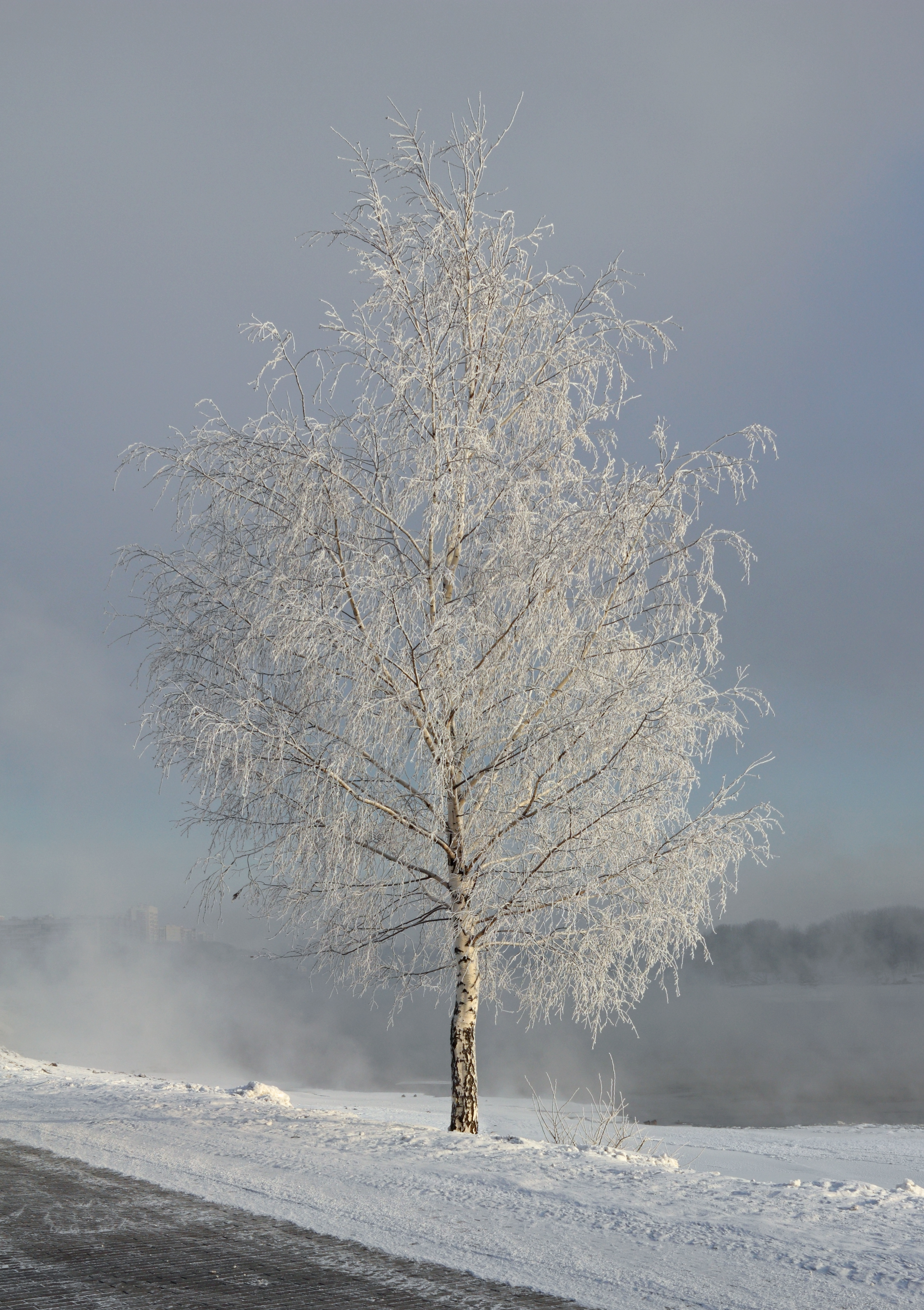 Kolomenskoe Museum-Reserve in Moscow. Moskva River embankment.